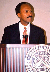 Franklin Raines, Then Chairman and Chief Executive Officer of Fannie Mae, Speaks at FDIC Symposium on July 31, 2002